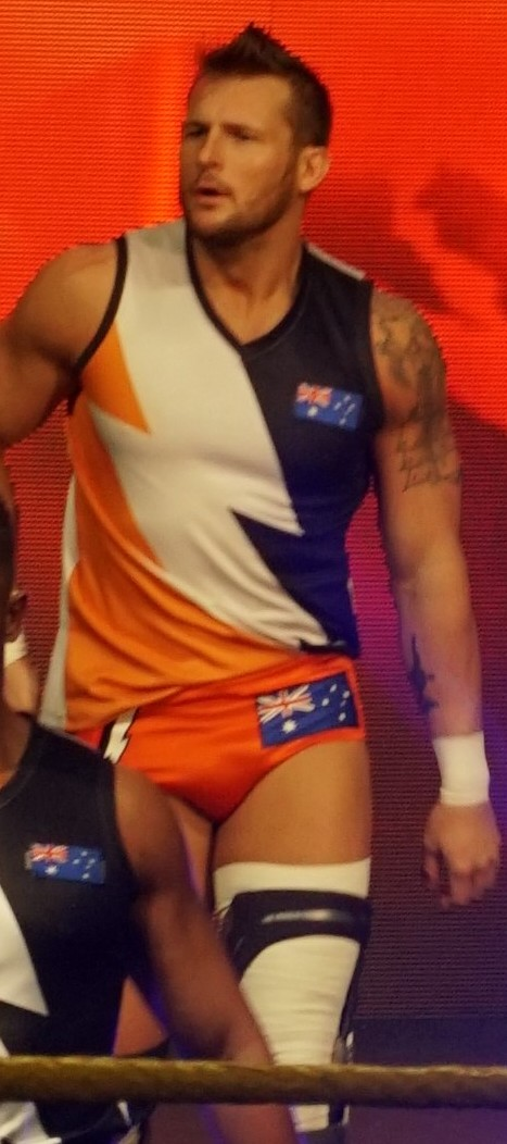 Nick Miller (front) and Shane Thorne at WWE Axxess in New Orleans.